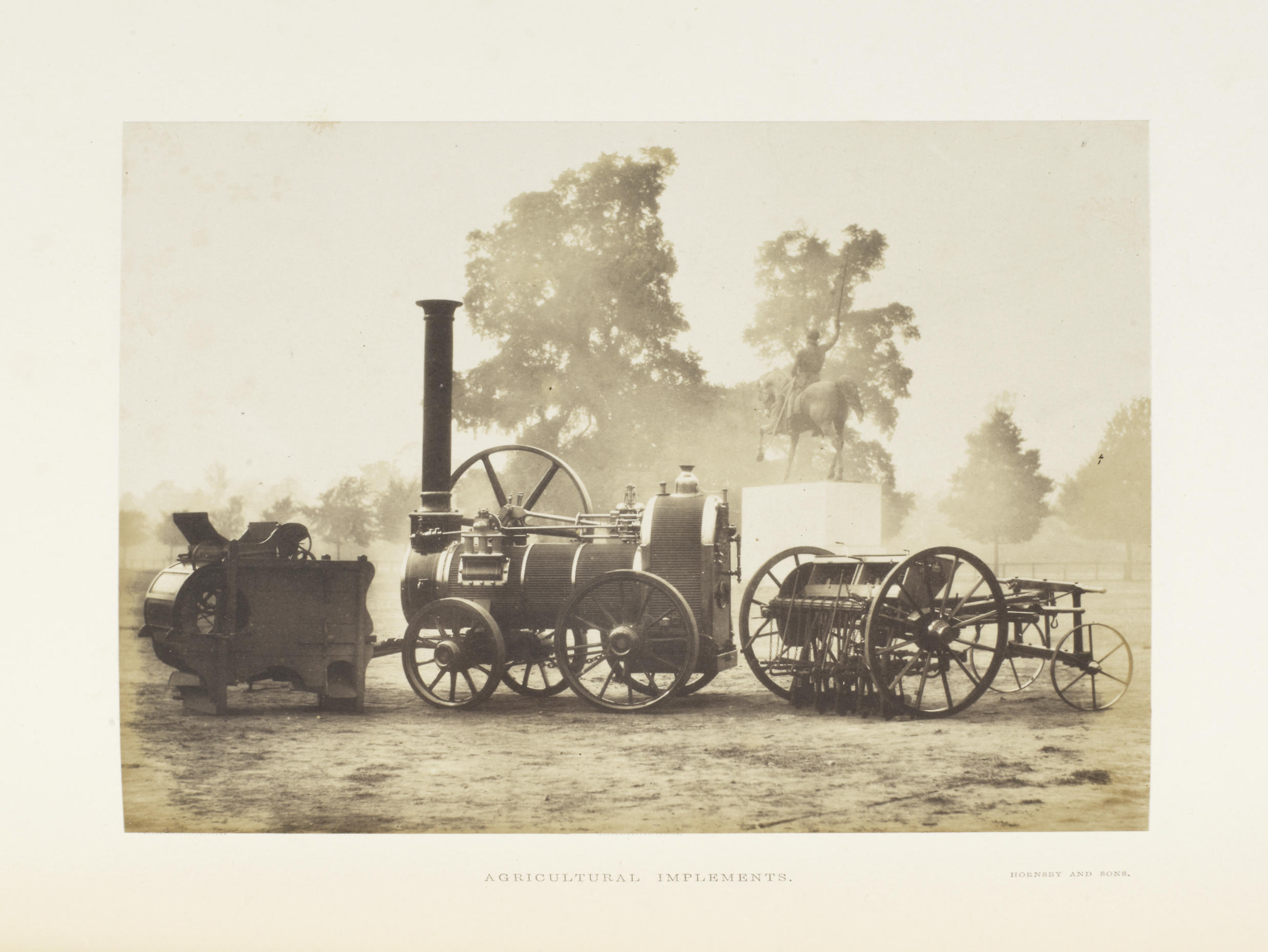 Mounted Calotype depicting a scene from the Great Exhibition of 1851. From Henry Fox Talbot's presentation report, Spicer Brothers, Wholesale Stationers, W. Clowes & Sons, Printers, 1852.